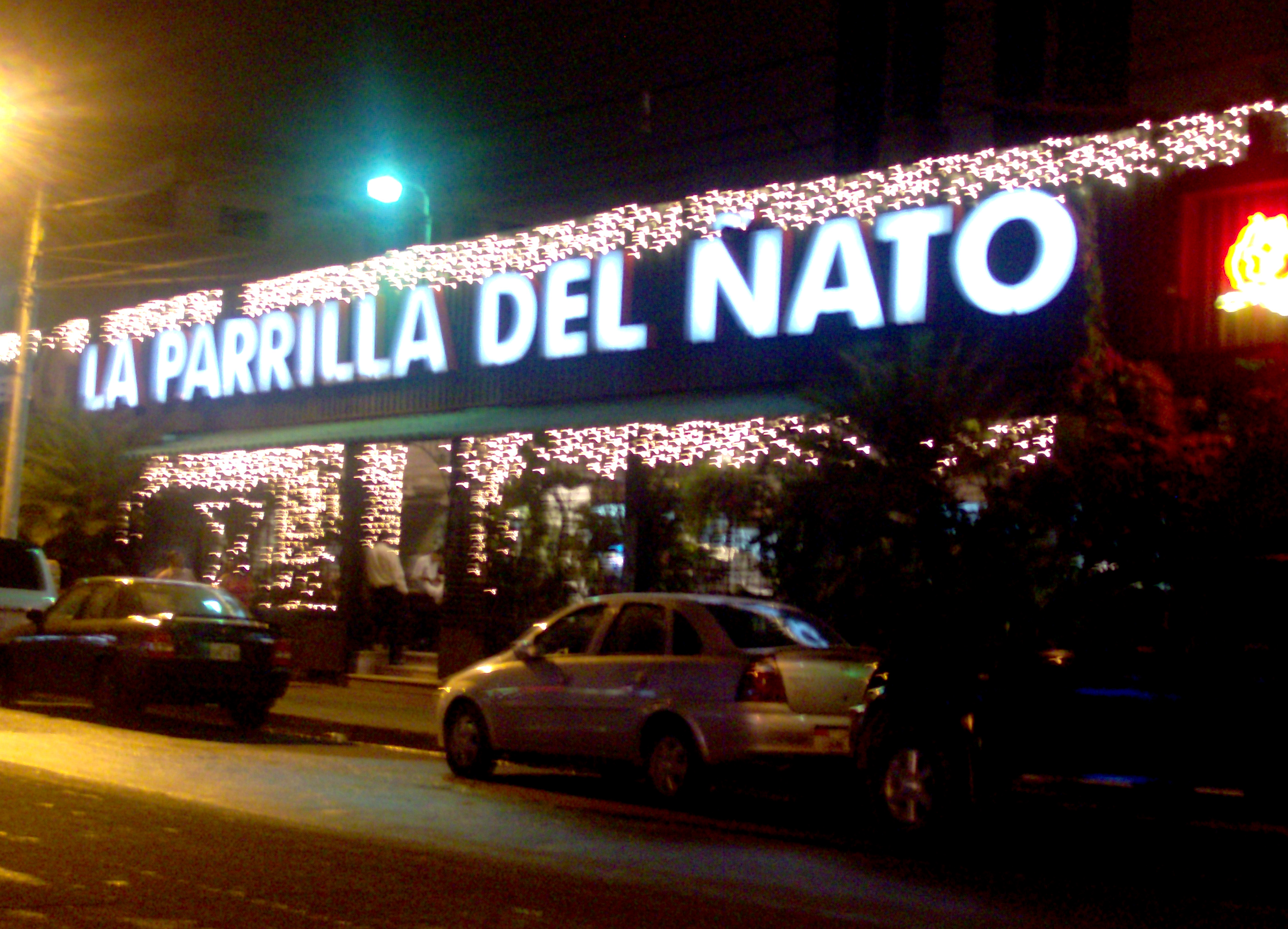 Tradicional restaurant in Urdesa, Guayaquil, Ecuador.